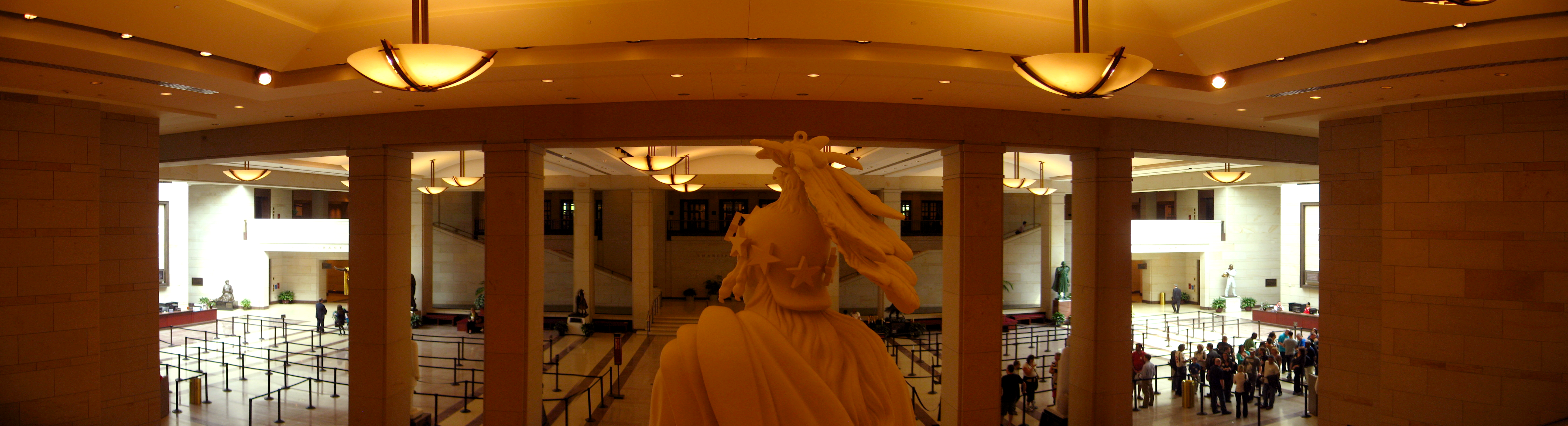 View of the interior of the U.S. Capitol (behind the statue).